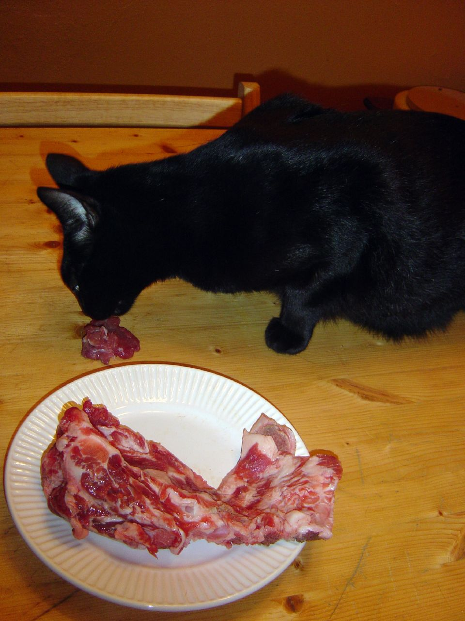 Cat feeding on raw pork neck.